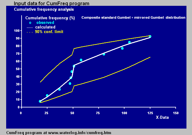 Discontinuous cumulative frequency and probability distribution of rainfall in Northern Peru depending on presence or absence of "el Ninyo".